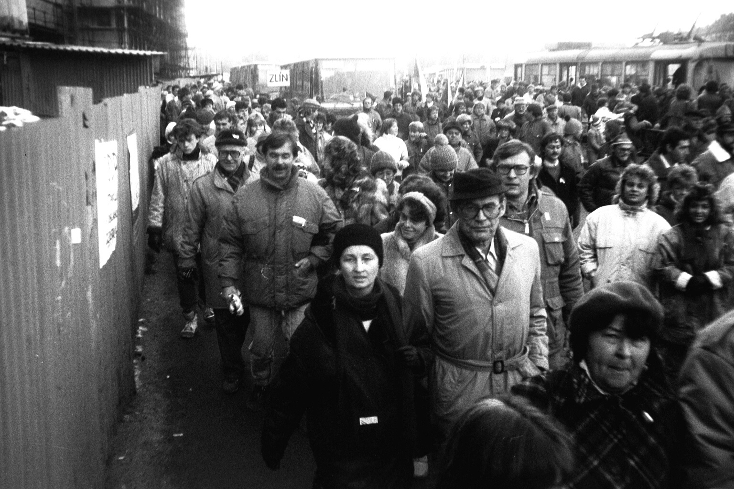 Prague during the Velvet Revolution.